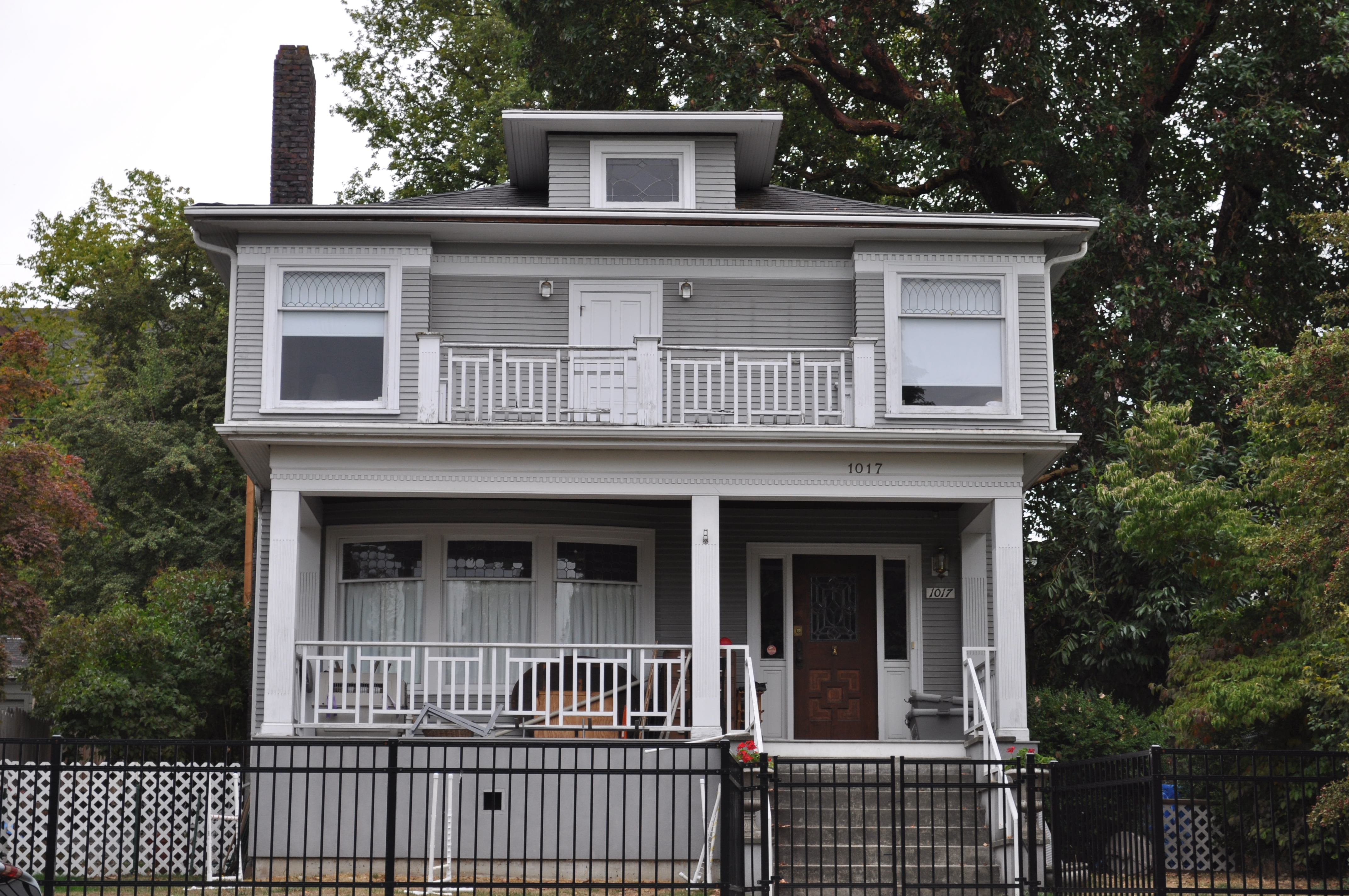 1017 23rd Avenue E, Capitol Hill, Seattle, Washington.